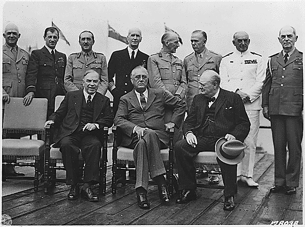 From the source: "Franklin D. Roosevelt, Churchill, M. King, and several Military Personel in Quebec." Detail: (according to [1]) From left to right: Seated:W.L.M. King (Canadian Prime Minister), F.D. Roosevelt (American President), W. Churchill (British Prime Minister). Standing: General Arnold, Air Chief Marshal Portal, General Brooke, Admiral King, Field Marshal Dill, General Marshall, Admiral Pound, and Admiral Leahy.